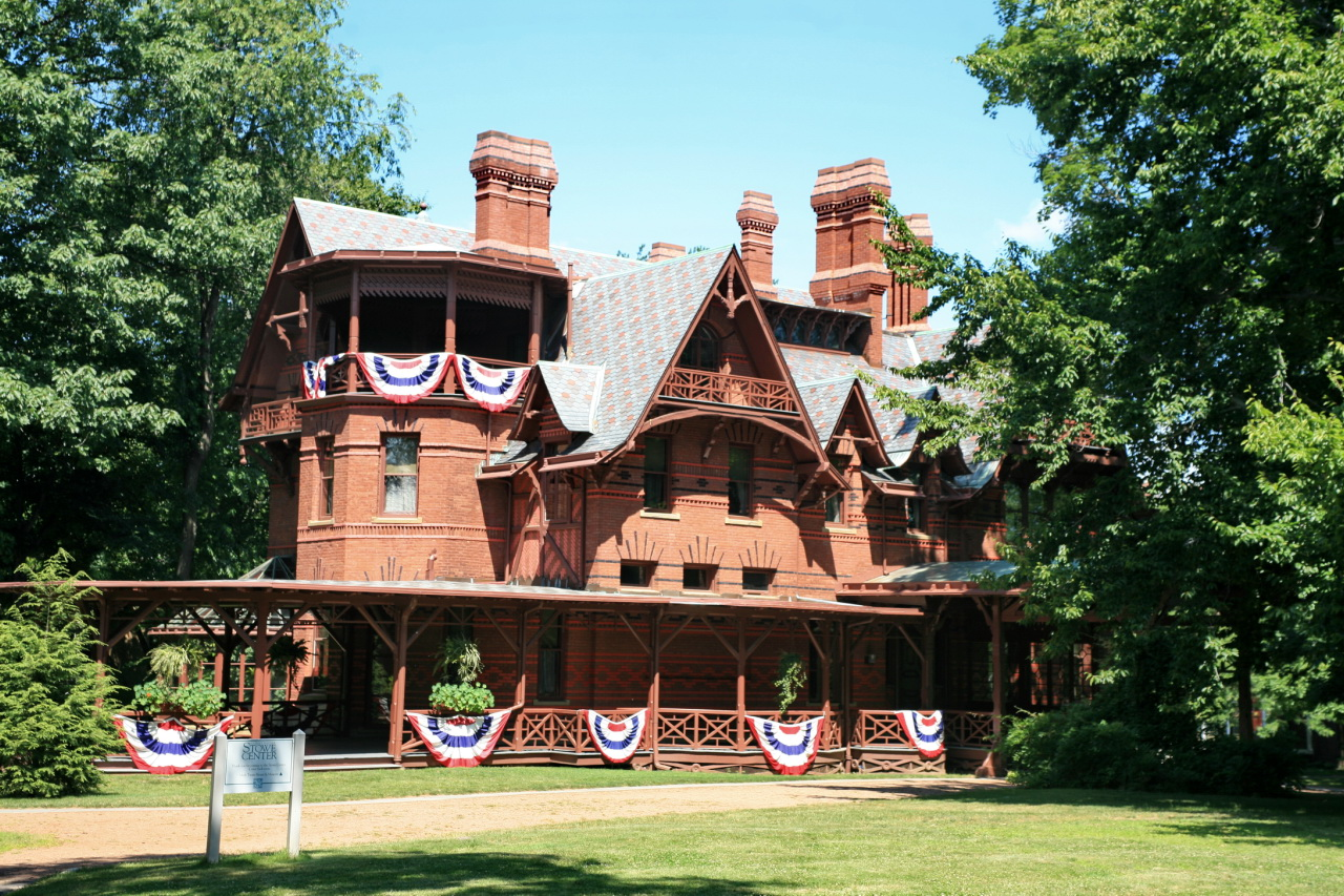 Mark Twain moved to Hartford in 1871 and purchased the property for his new house in north Hartford. He did so to be closer to his publisher, American Publishing Company. Of Hartford, Twain said, "Of all the beautiful towns it has been my fortune to see, this is the chief... You do not know what beauty is if you have not been here." While in Connecticut, the family remarked "[the house] had a heart, and a soul, and eyes to see us with."